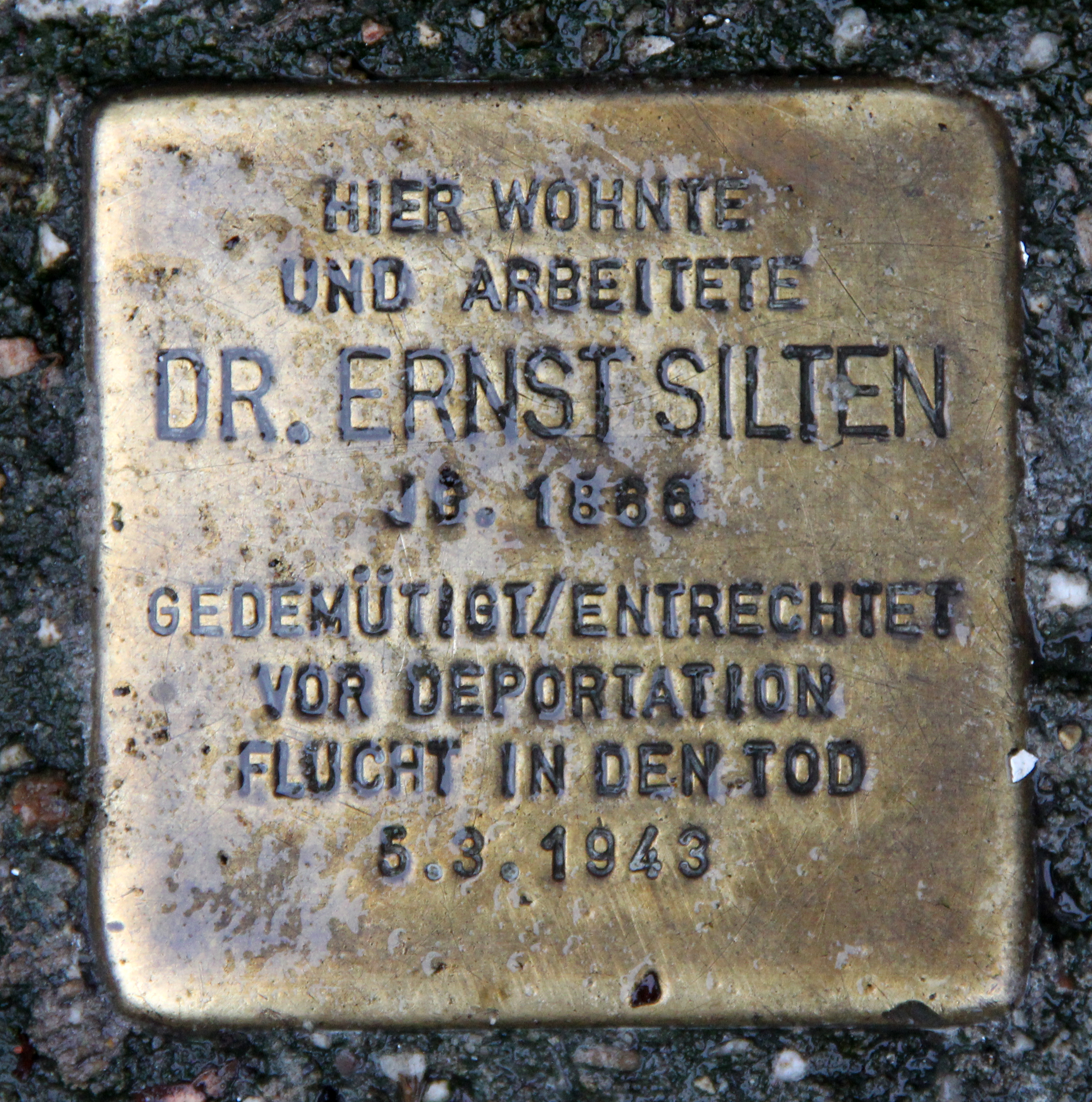 "Stolperstein" (stumbling block), Ernst Silten, Reinhardtstraße 5, Berlin-Mitte, Germany